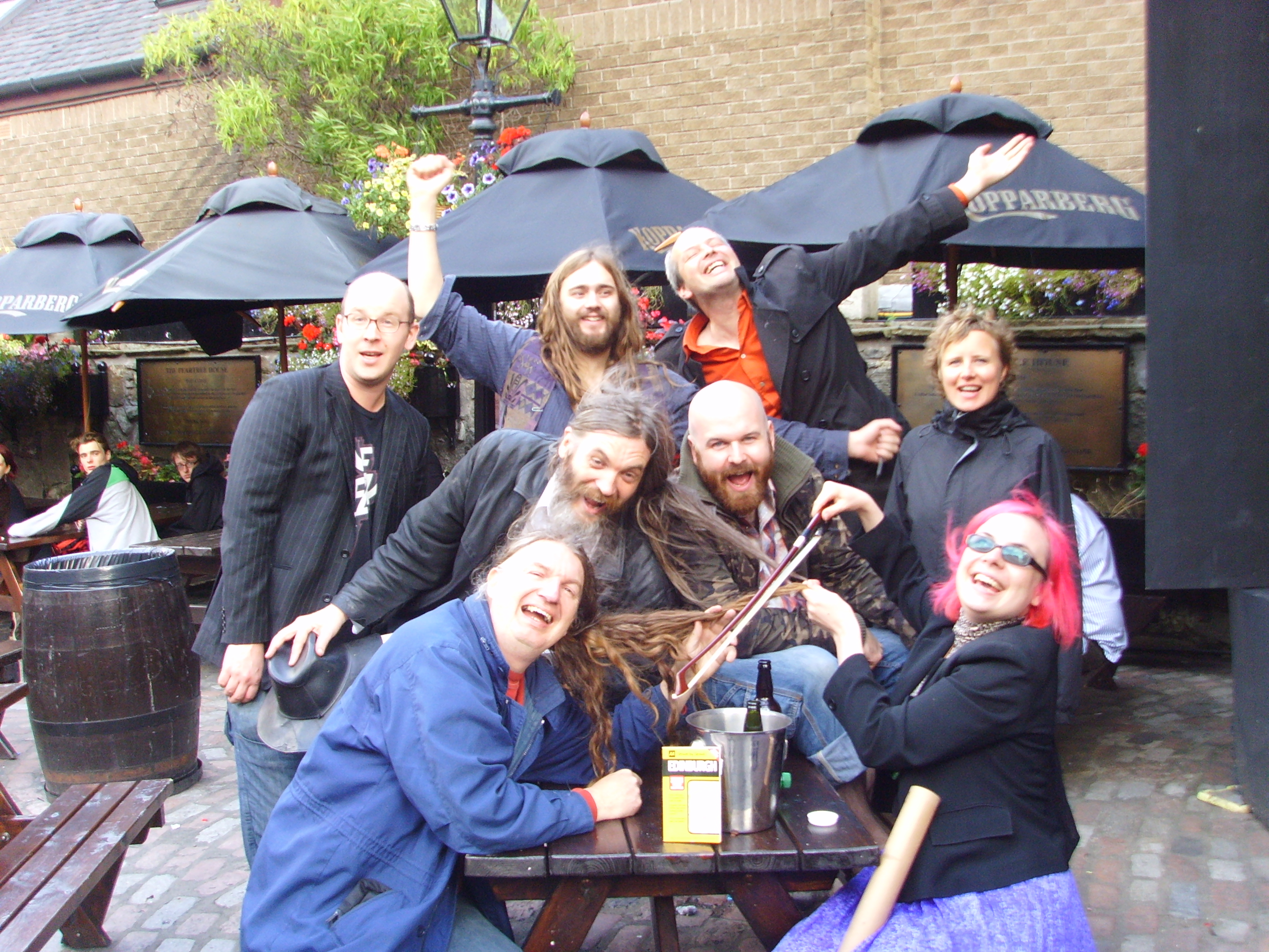 The A band performing at the Edinburgh Fringe Festival, 2009